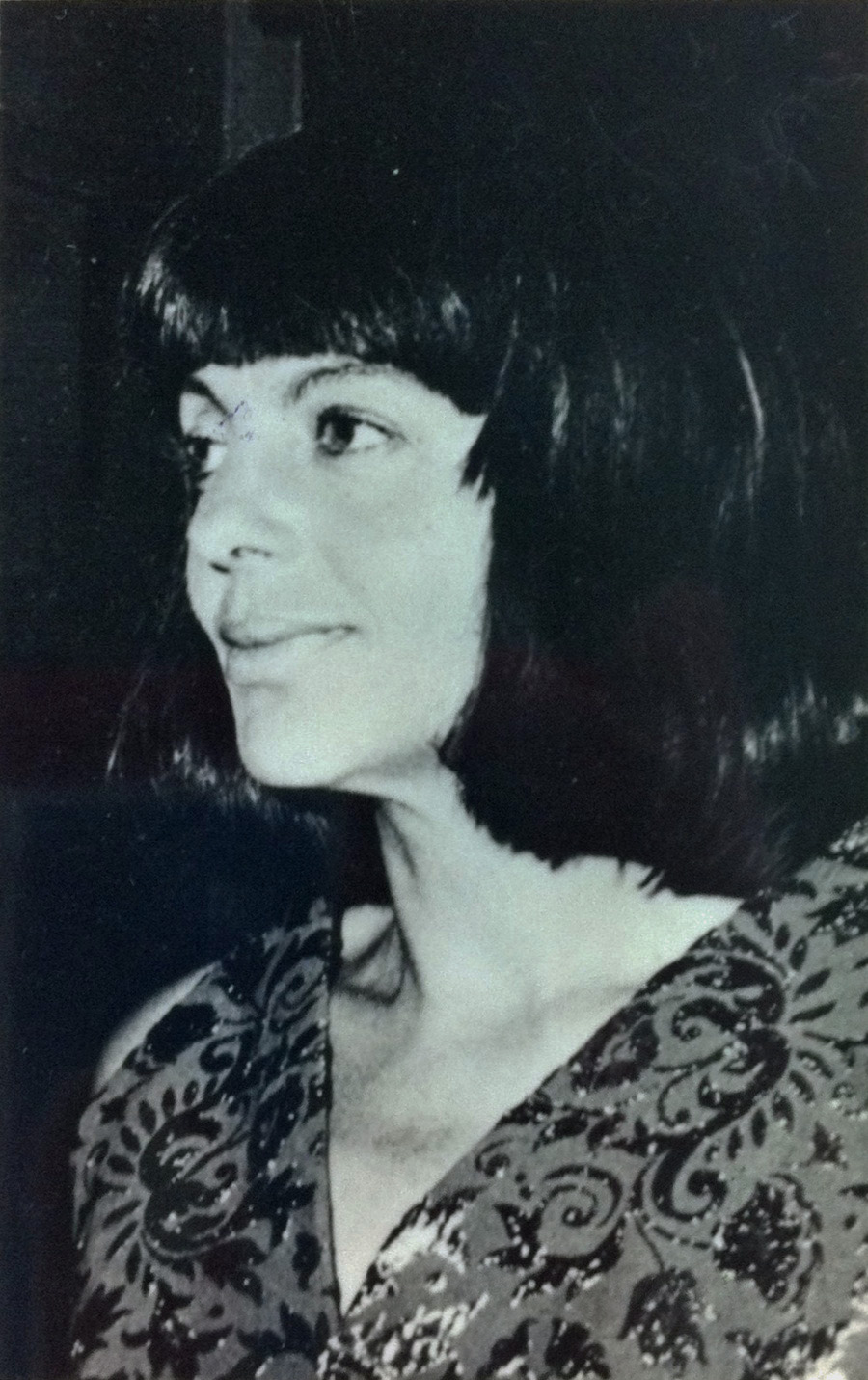 a picture of Lydia Pincus-Gany